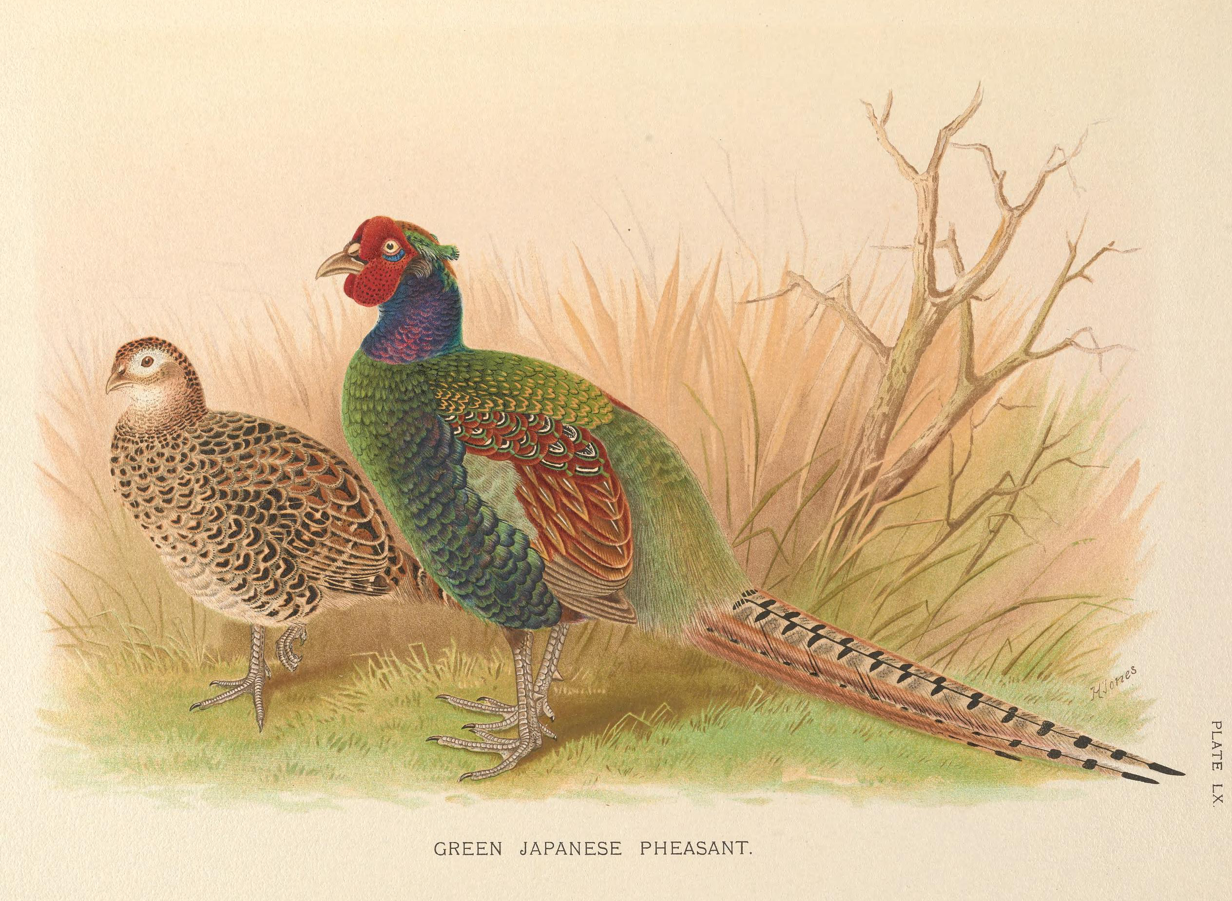 Green Japanese Pheasant (Phasianus versicolor)